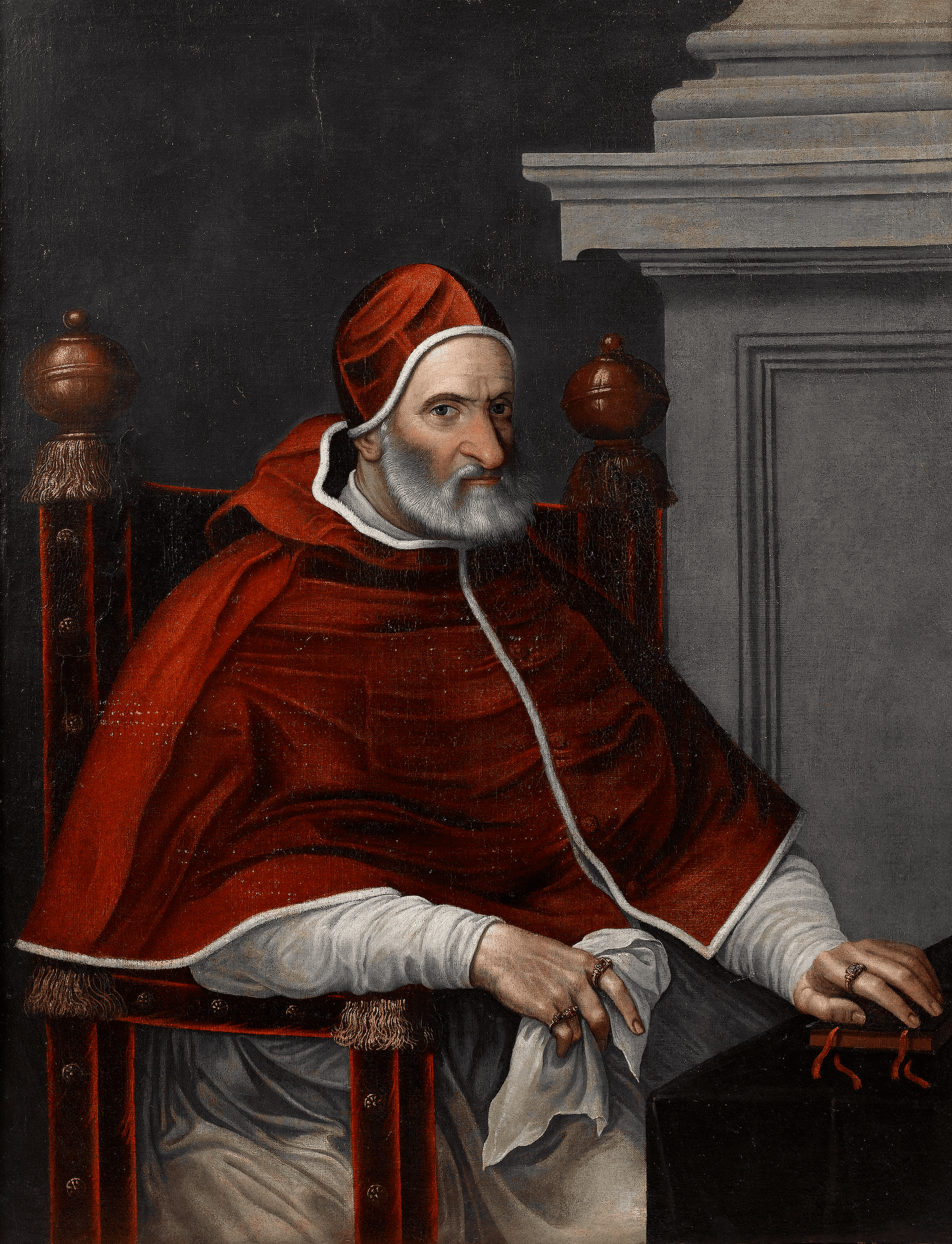 Portrait Pope Pius IV